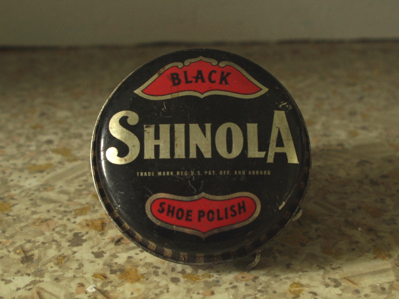 Photograph by afiler (from [1]) taken at Pennington County Historical Society.